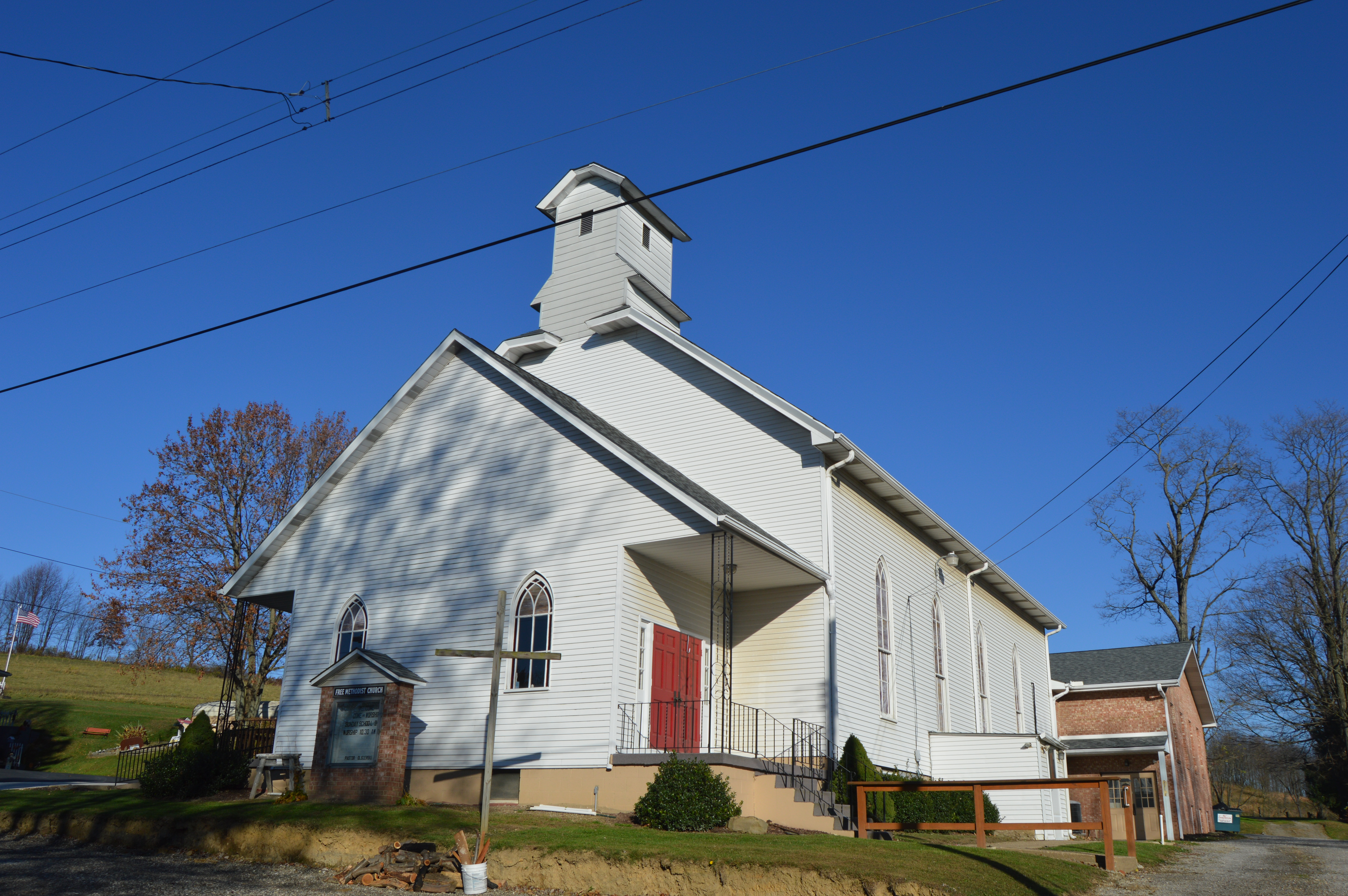 Front and southern side of the Hookstown Free Methodist Church, located at 255 Main Street in Hookstown, Pennsylvania, United States.